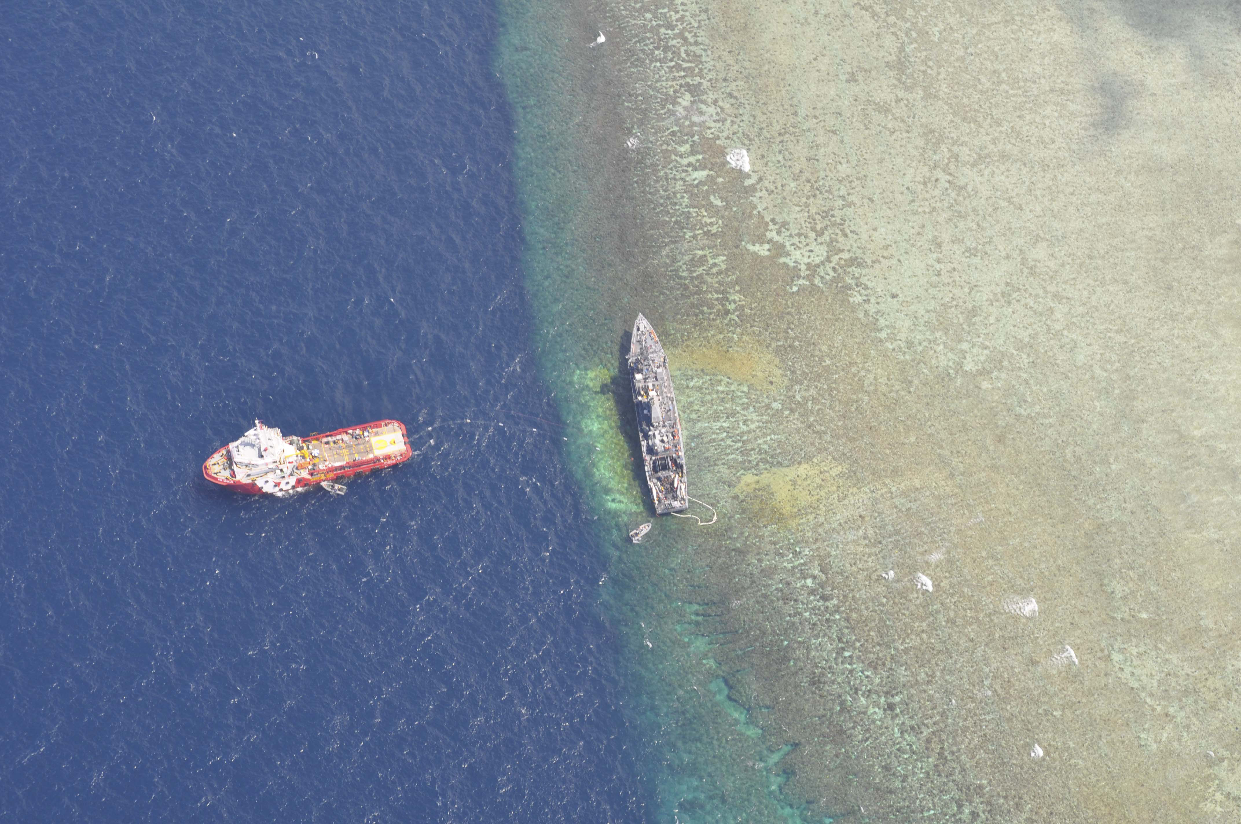 SULU SEA (Jan. 28, 2013) The U.S. Navy contracted Malaysian tug Vos Apollo removes petroleum-based products and human wastewater from the mine countermeasure ship USS Guardian (MCM 5), which ran aground on the Tubbataha Reef in the Sulu Sea on Jan. 17. No fuel has leaked since the grounding and all of the approximately 15,000 gallons on board Guardian was safely transferred to Vos Apollo during two days of controlled de-fueling operations on Jan. 24 and Jan. 25. The grounding and subsequent heavy waves hitting Guardian have caused severe damage, leading the Navy to determine the 23-year old ship is beyond economical repair and is a complete loss. With the deteriorating integrity of the ship, the weight involved, and where it has grounded on the reef, dismantling the ship in sections is the only supportable salvage option. Since Guardian's grounding, the Navy has been working meticulously to salvage any reusable equipment, retrieve the crew's personal effects, and remove any potentially harmful materials. The U.S. Navy continues to work in close cooperation with the Philippine Coast Guard and Navy to safely dismantle Guardian from the reef while minimizing environmental effects. (U.S. Navy photo)